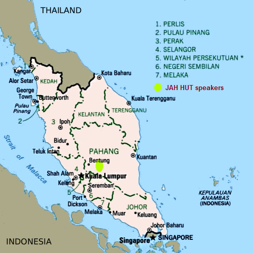 Map of Peninsular Malaysia -- by jpatokal, based on PD map by CIA,[1] and modified by me to show location of Jah Hut language speakers.